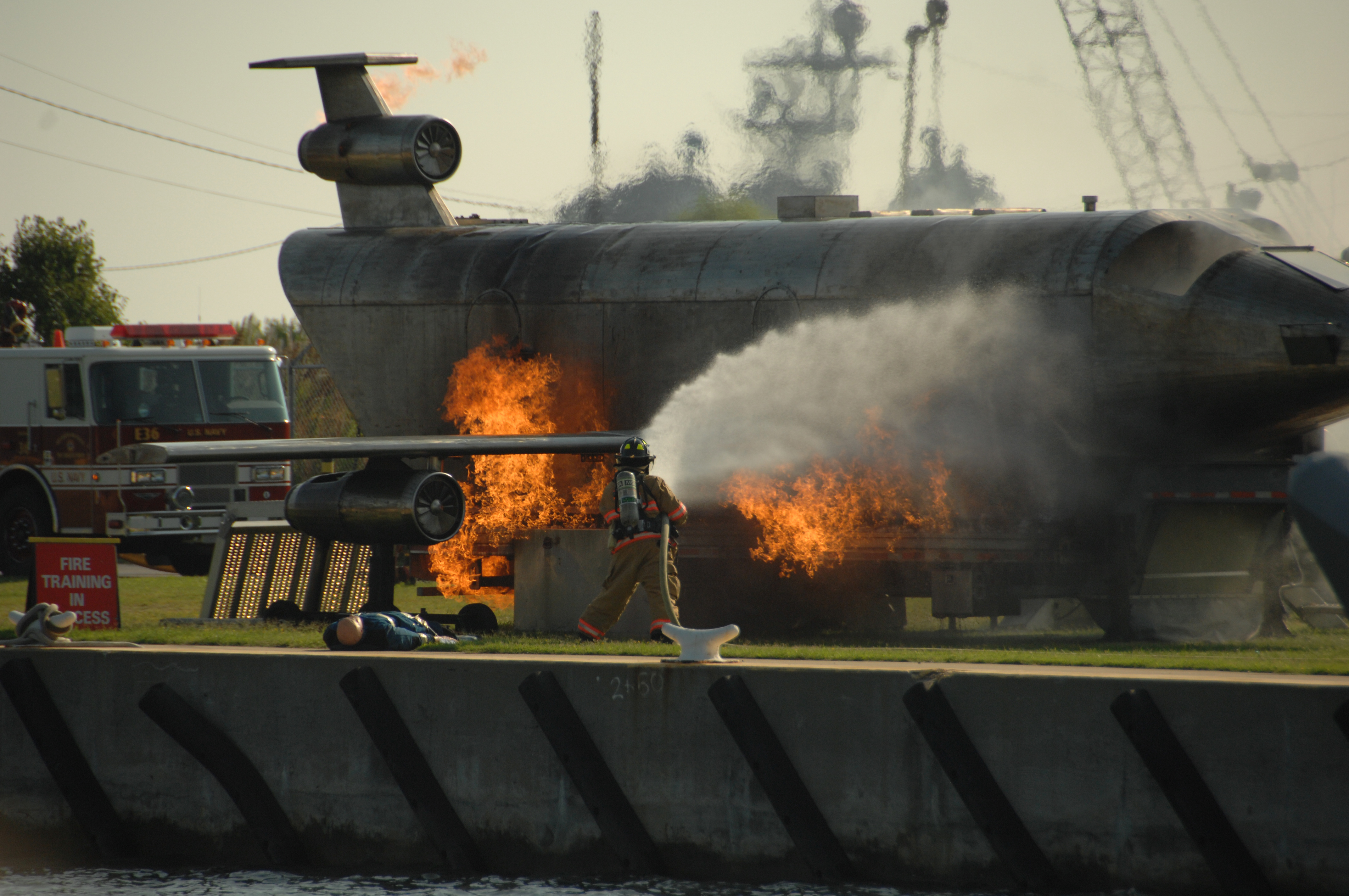 VIRGINIA BEACH, Va. (Aug. 16, 2011) A Joint Expeditionary Base Little Creek-Fort Story firefighter douses a trainer simulating a crashed airplane during an aircraft emergency exercise conducted by the Joint Expeditionary Base Little Creek-Fort Story Integrated Training Team. The exercise featured support and cooperation from the cities of Norfolk and Virginia Beach, Va., and the U.S. Coast Guard. (U.S. Navy photo by Mass Communication Specialist 3rd Class Maria Rachel D. Melchor/Released)